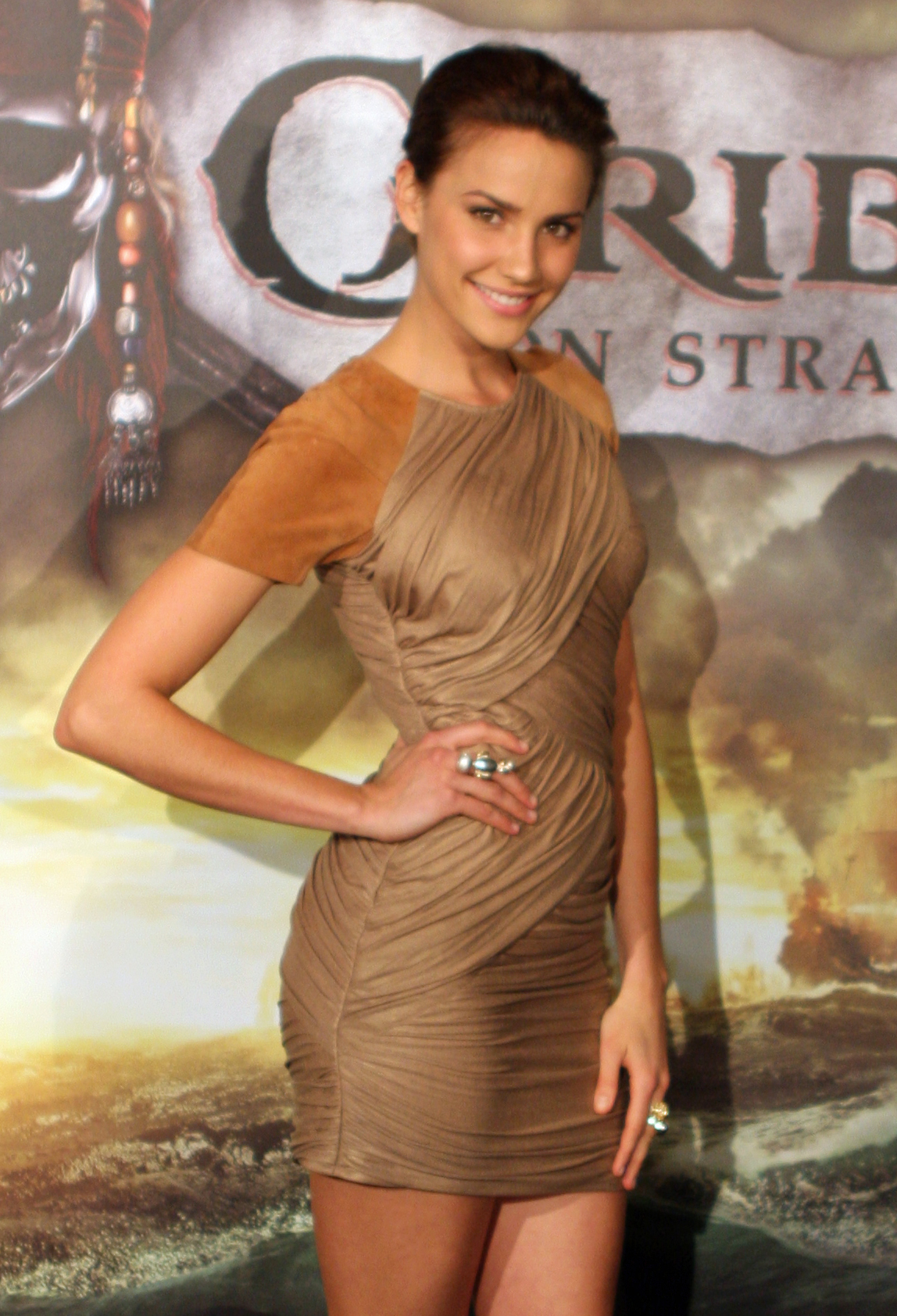 Rachael Finch at the Pirates of the Caribbean: On Stranger Tides Sydney, Australia premiere in May 2011.